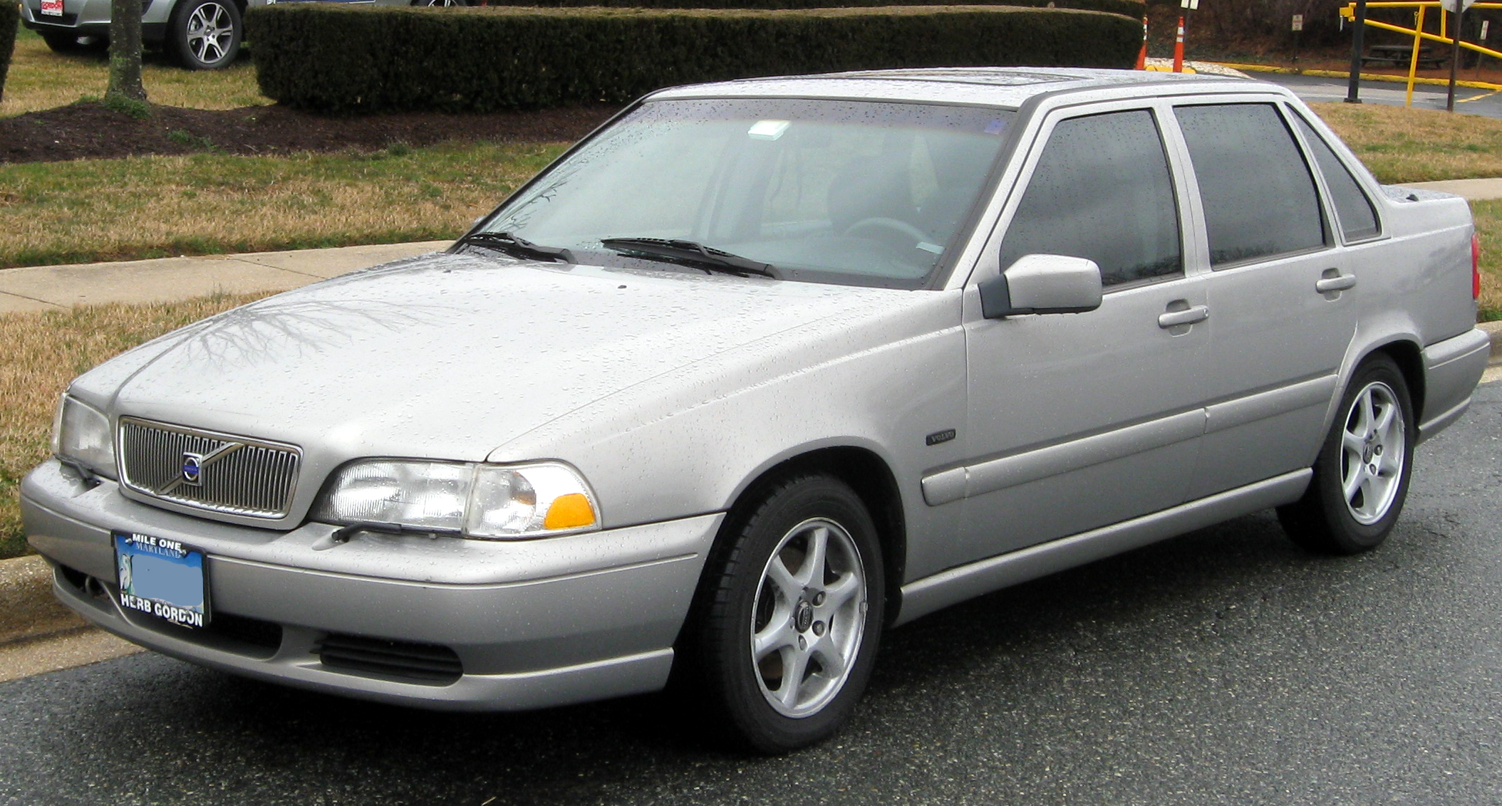 Volvo S70 photographed in Silver Spring, Maryland, USA.